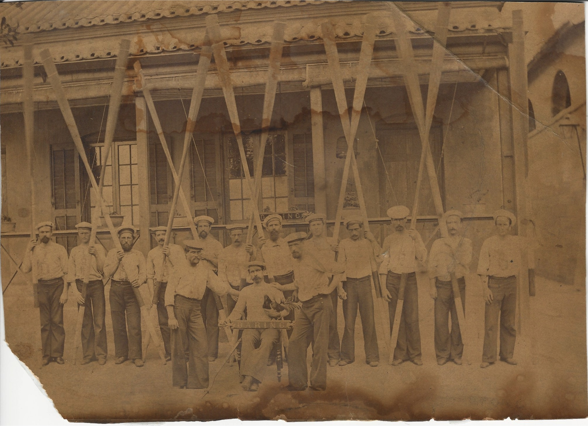 15 members of the crew of HMS Daring (1874) holding oars, a carved ship sign "Daring" and their mascot, a rooster. The type of tile roof in the photo as well as the arches on the building to the Right may help identify the location in general.